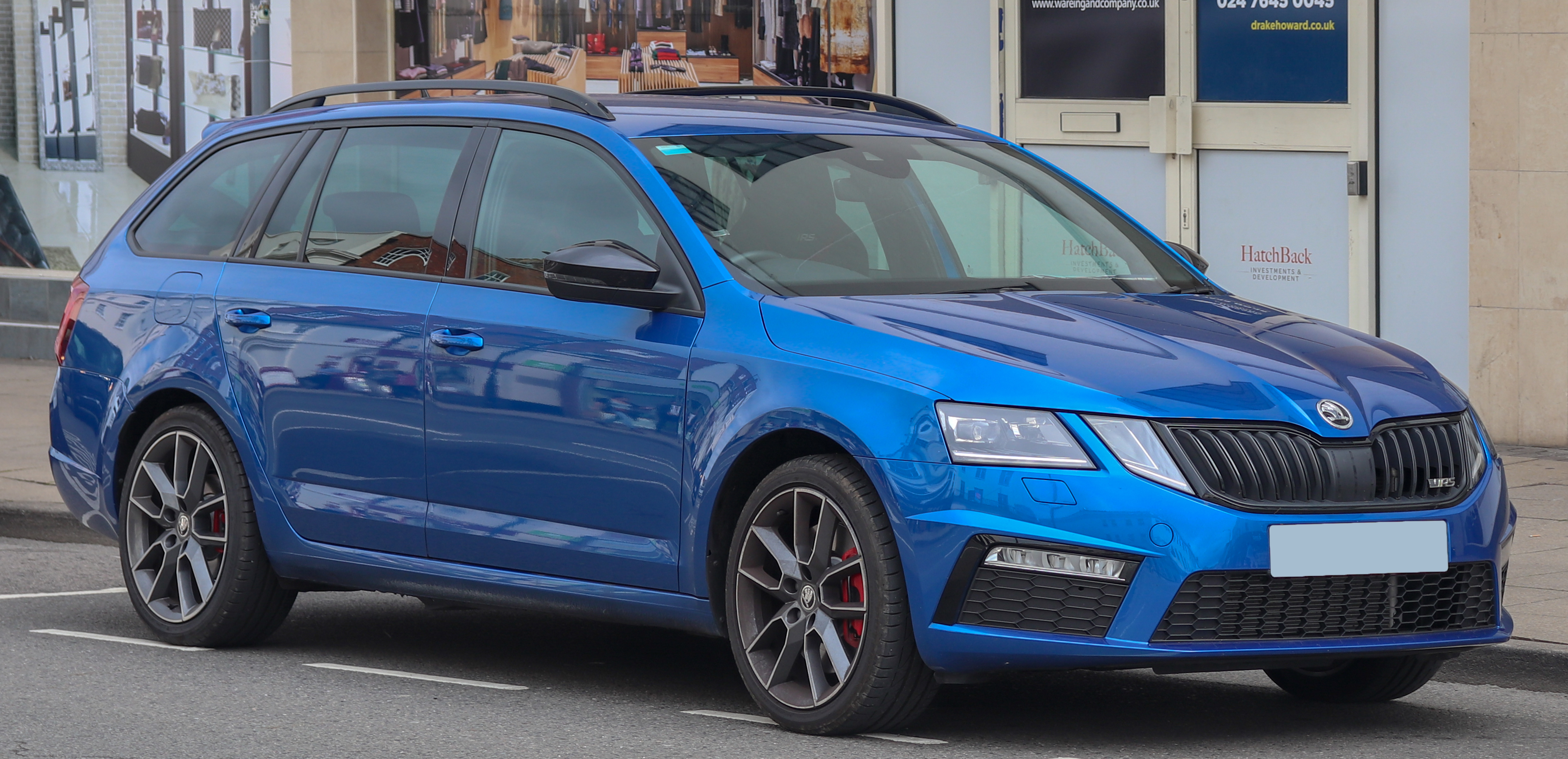 2018 Skoda Octavia VRS TSi 2.0 Front